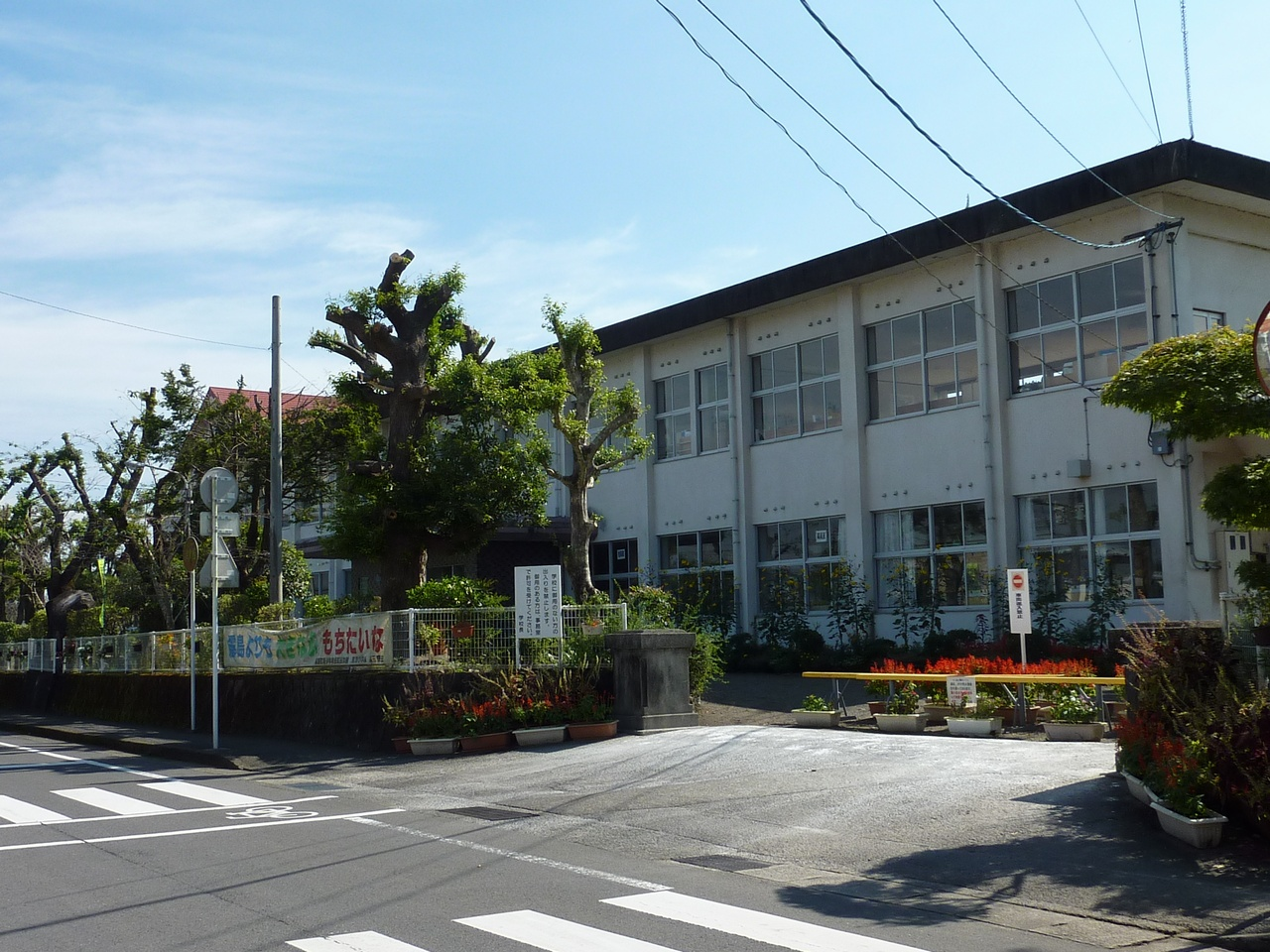 Takaharu Elementary School (Takaharu Town, Miyazaki Prefecture, Japan)